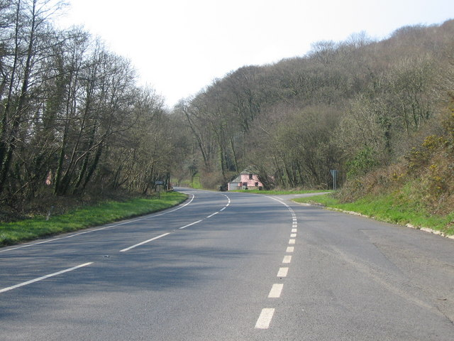 A39 Atlantic Highway A view looking to the southwest along the A39 Atlantic Highway, towards the pink cottage at the junction of the lane to Trewethen. Trelill Wood is in the background.